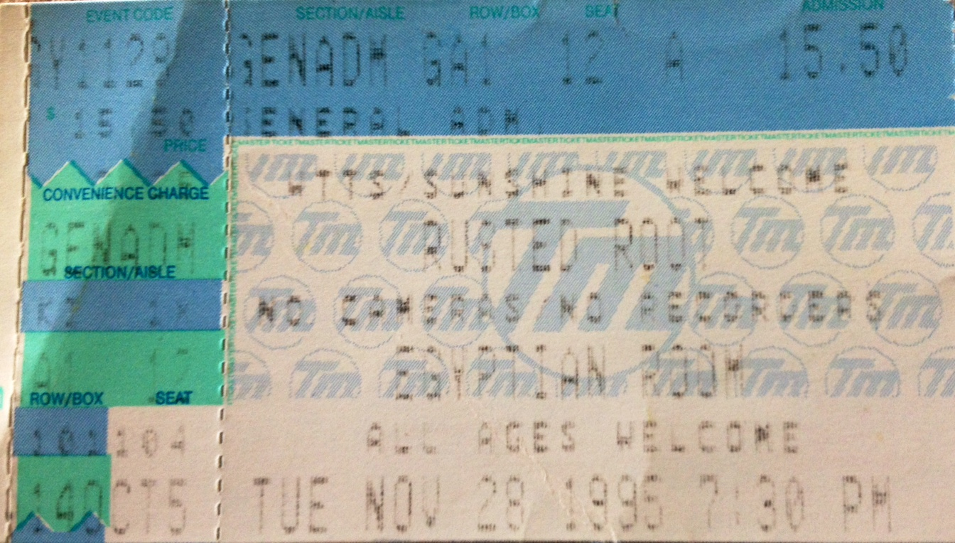 Rusted Root concert ticket. Egyptian Room, Indianapolis, Indiana November 28, 1995 $15.50